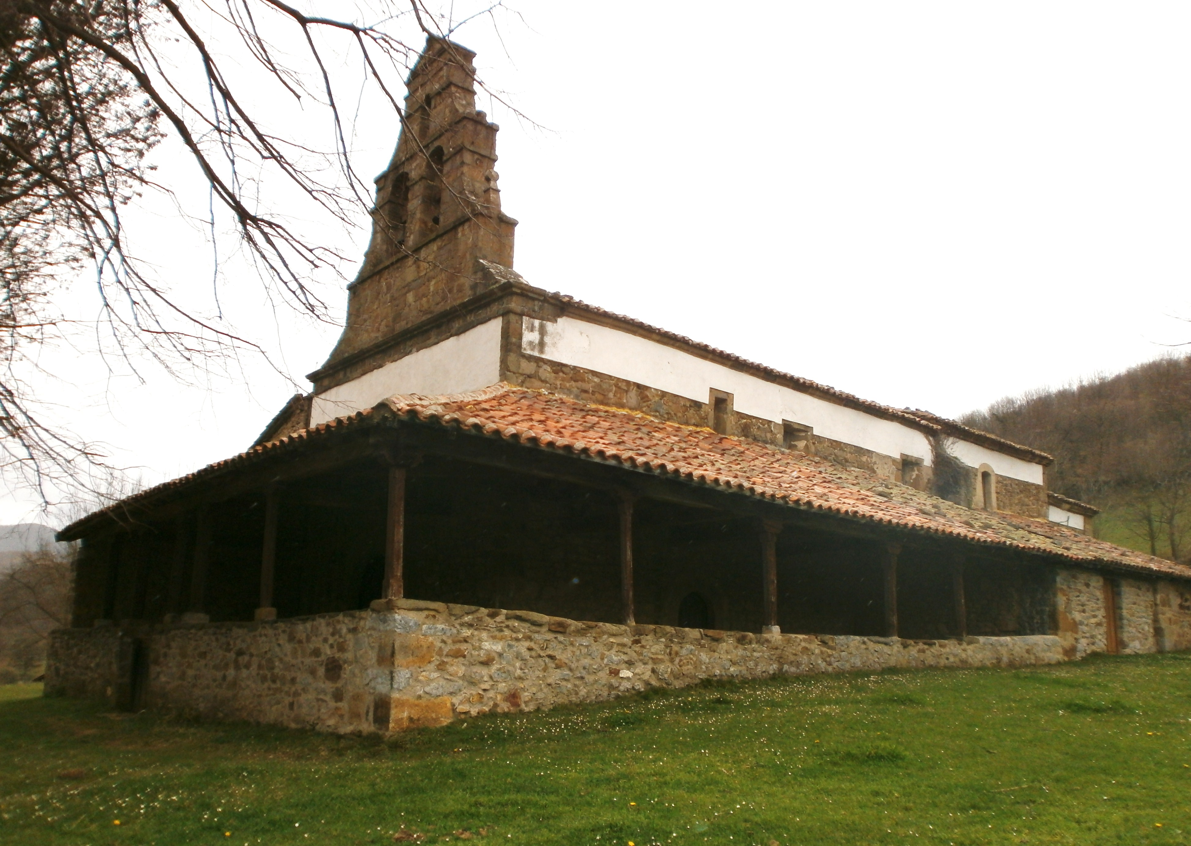 Vista exterior del Santuario de Bendueños. Parte nor-occidental